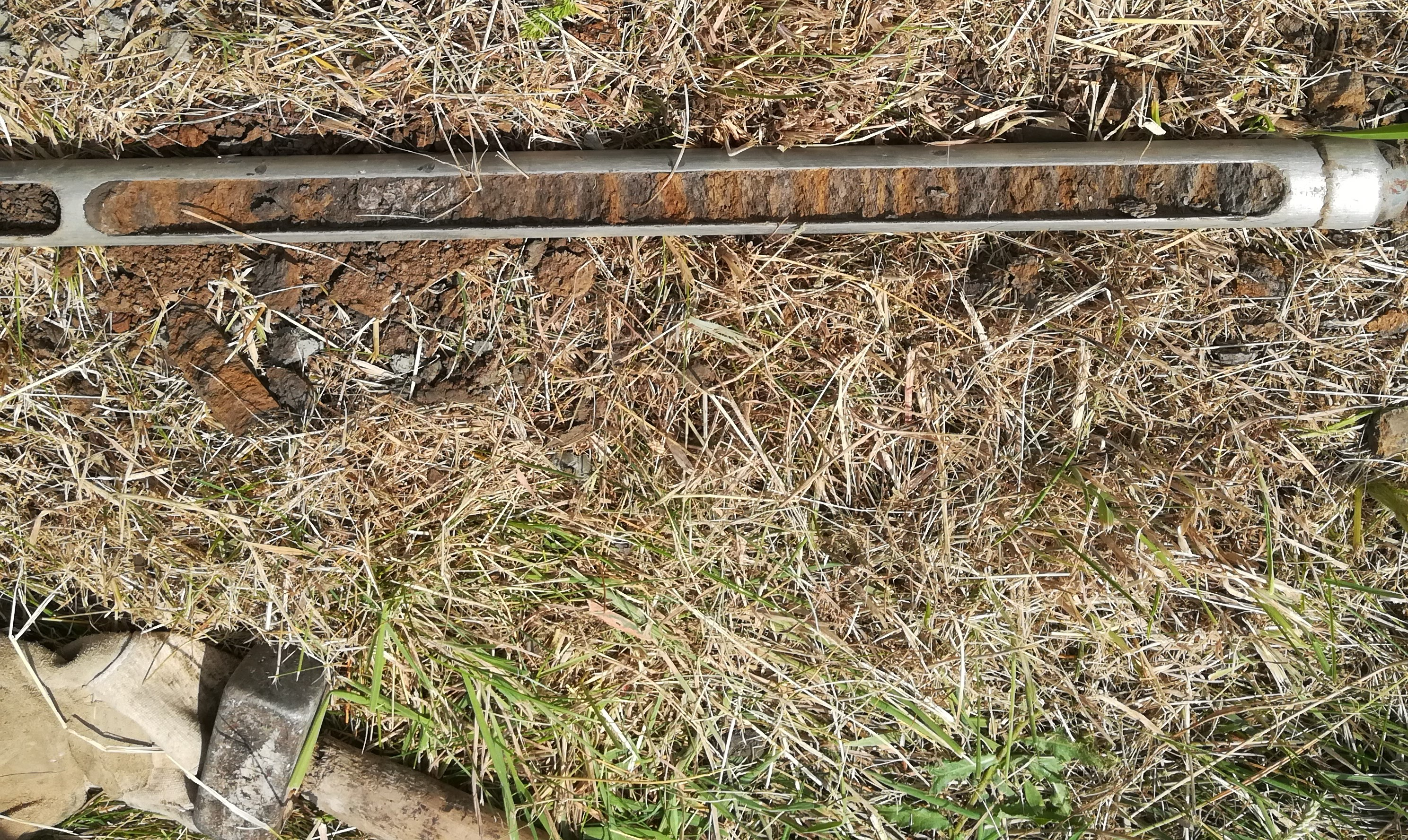 Alternating shist and sandstone (depth to 6 m) near Bad Salzuflen, Germany